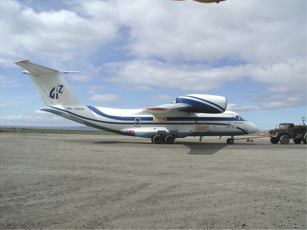 An Antonov An-74-200 of Gazpromavia